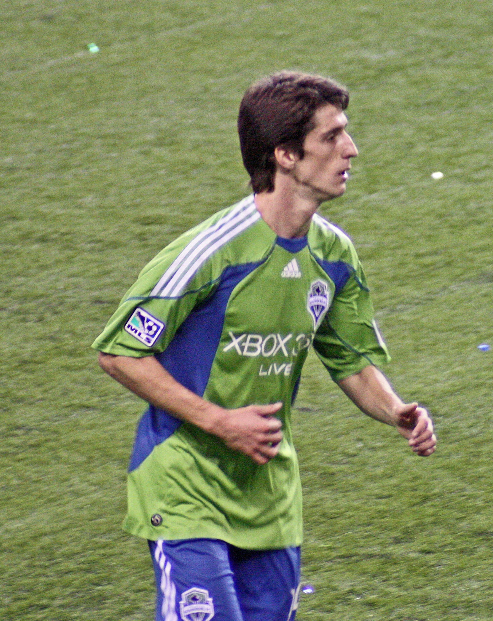 Alvaro Fernandez of Seattle Sounders.